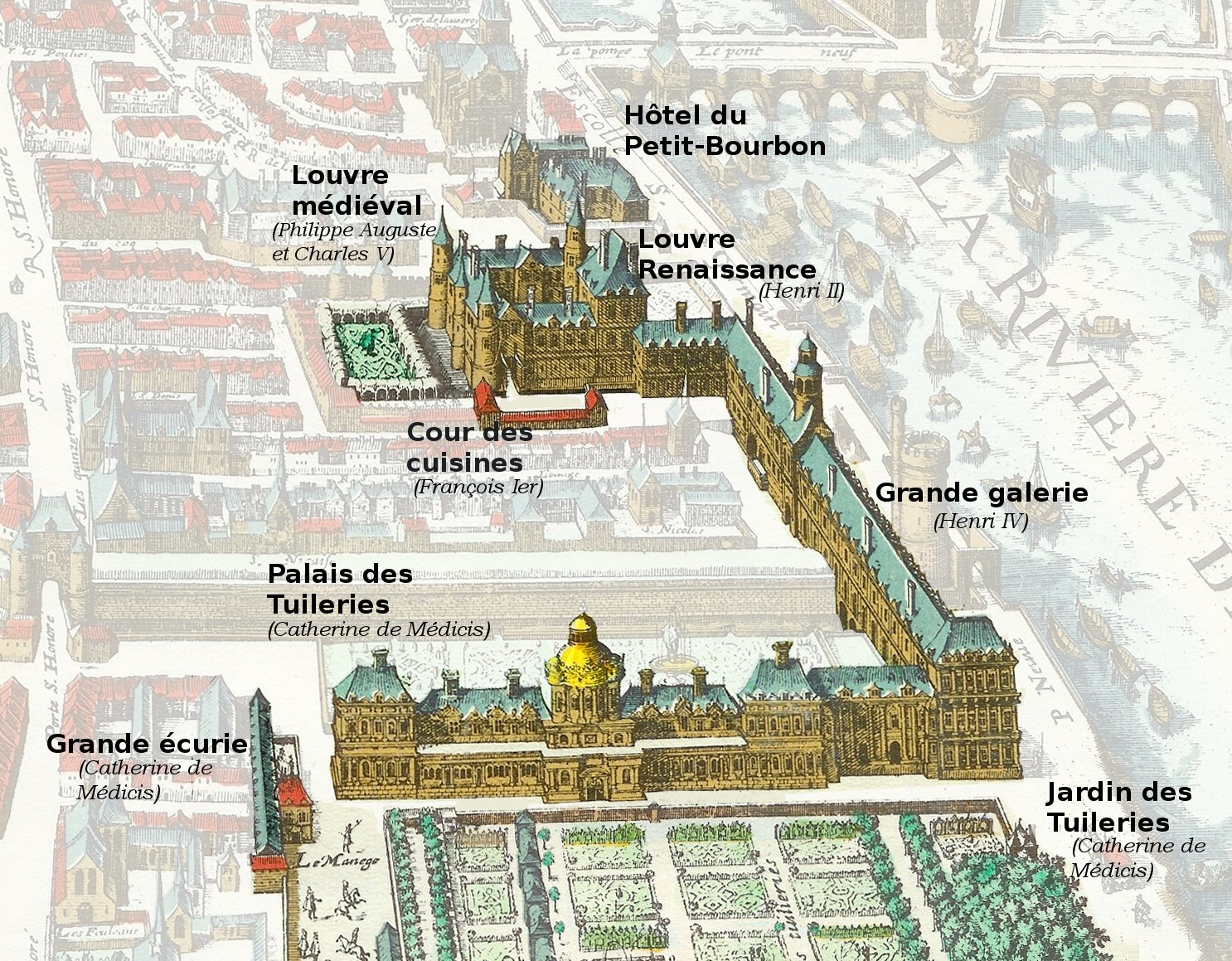 The Louvre, the Tuileries Palace and their annexes on the Mérian map of 1615